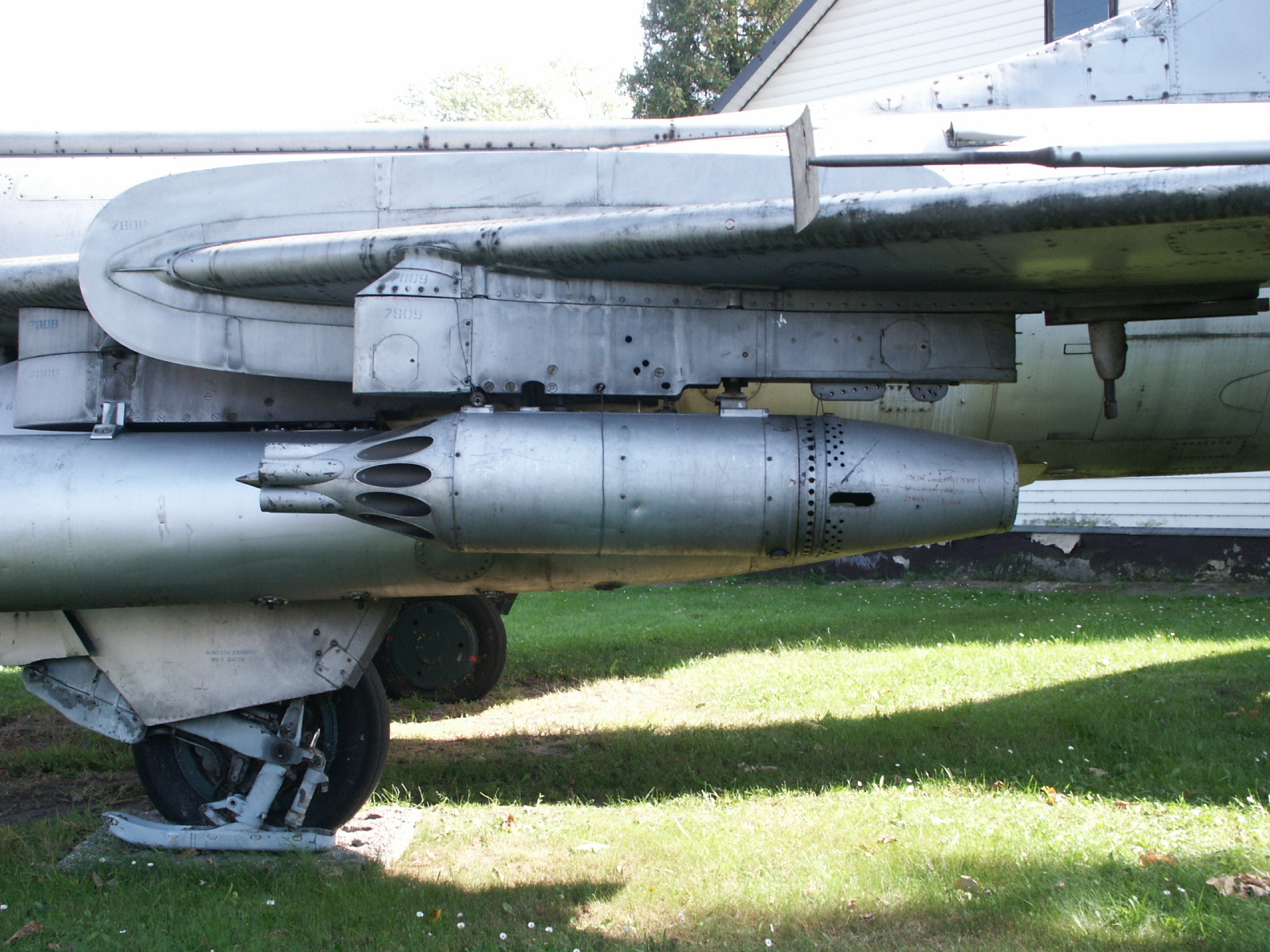 Details of landing gear with a skid and UB-16-57 launcher for 55 mm S-5 rockets of Su-7BKL fighter-bomber in Muzeum Orla Bialego (White Eagle Museum) in Skarzysko-Kamienna, Poland.